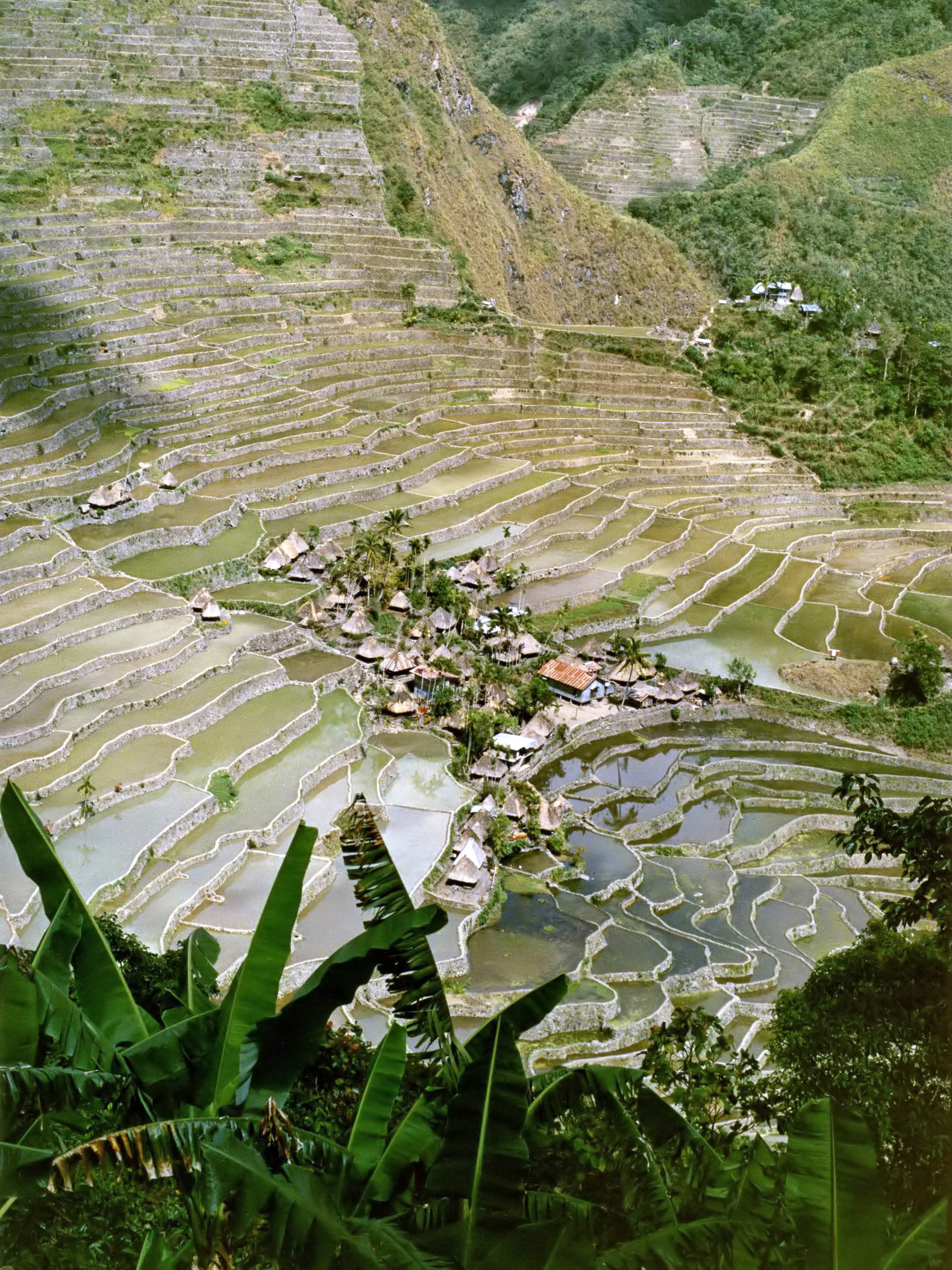 Rice terraces near Batad, Ifugao province, Philippines